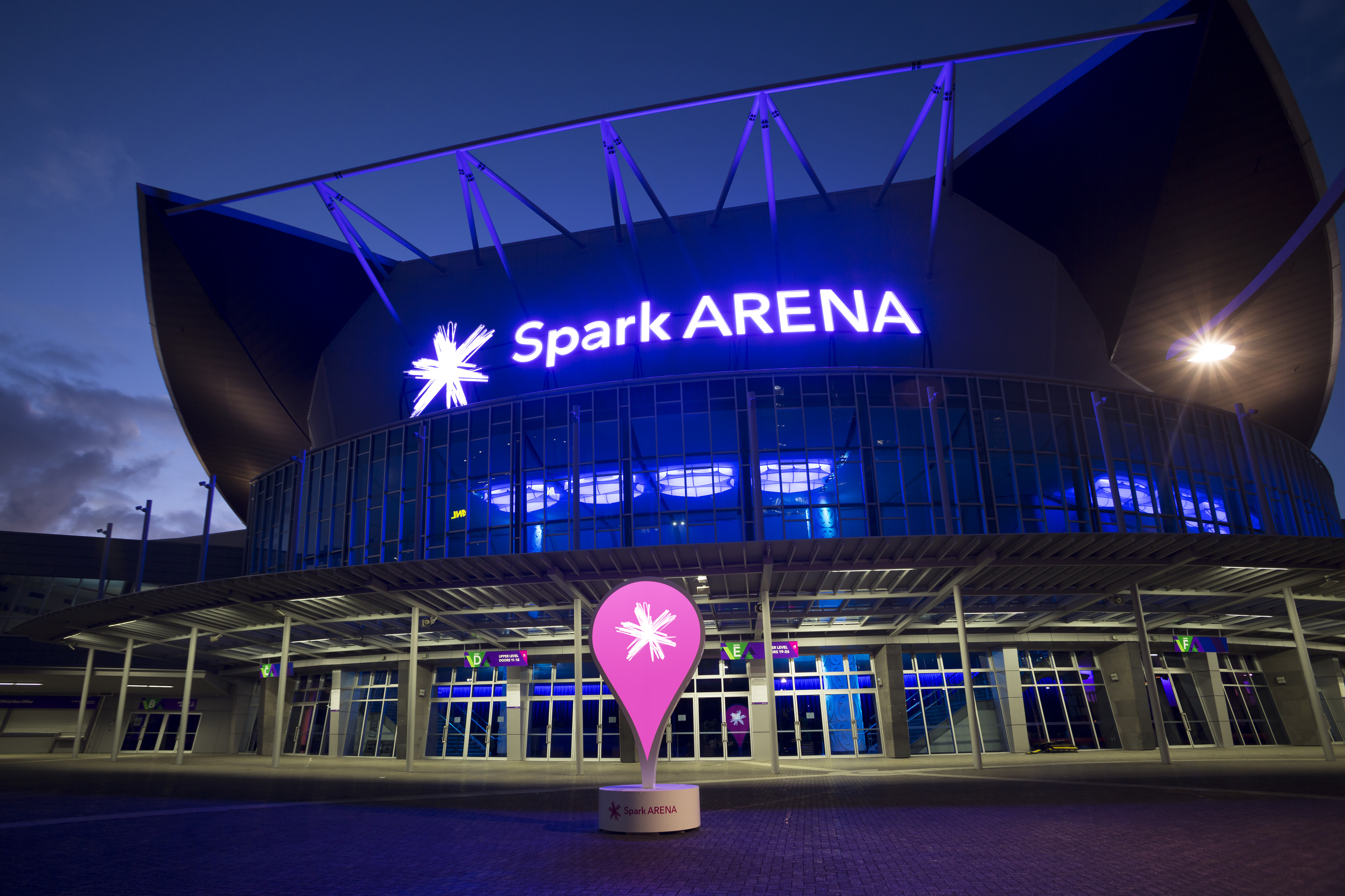 Spark Arena at night